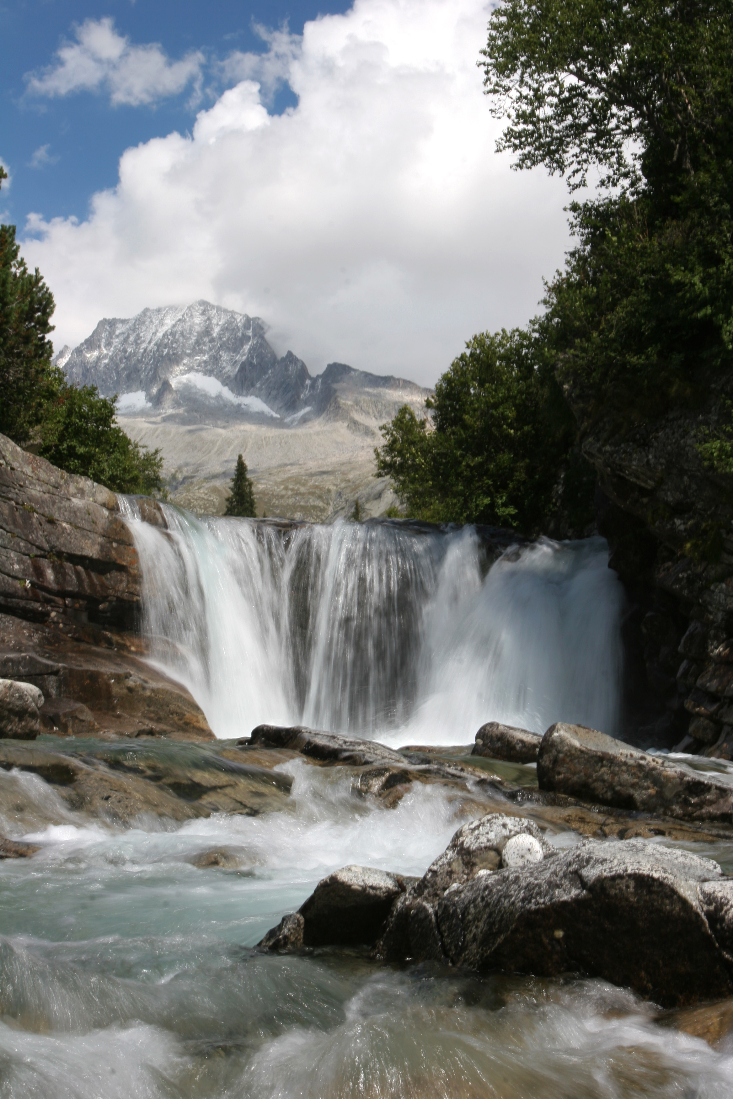 Caré Alto, with the waterfall right underneath the lago di Bissina